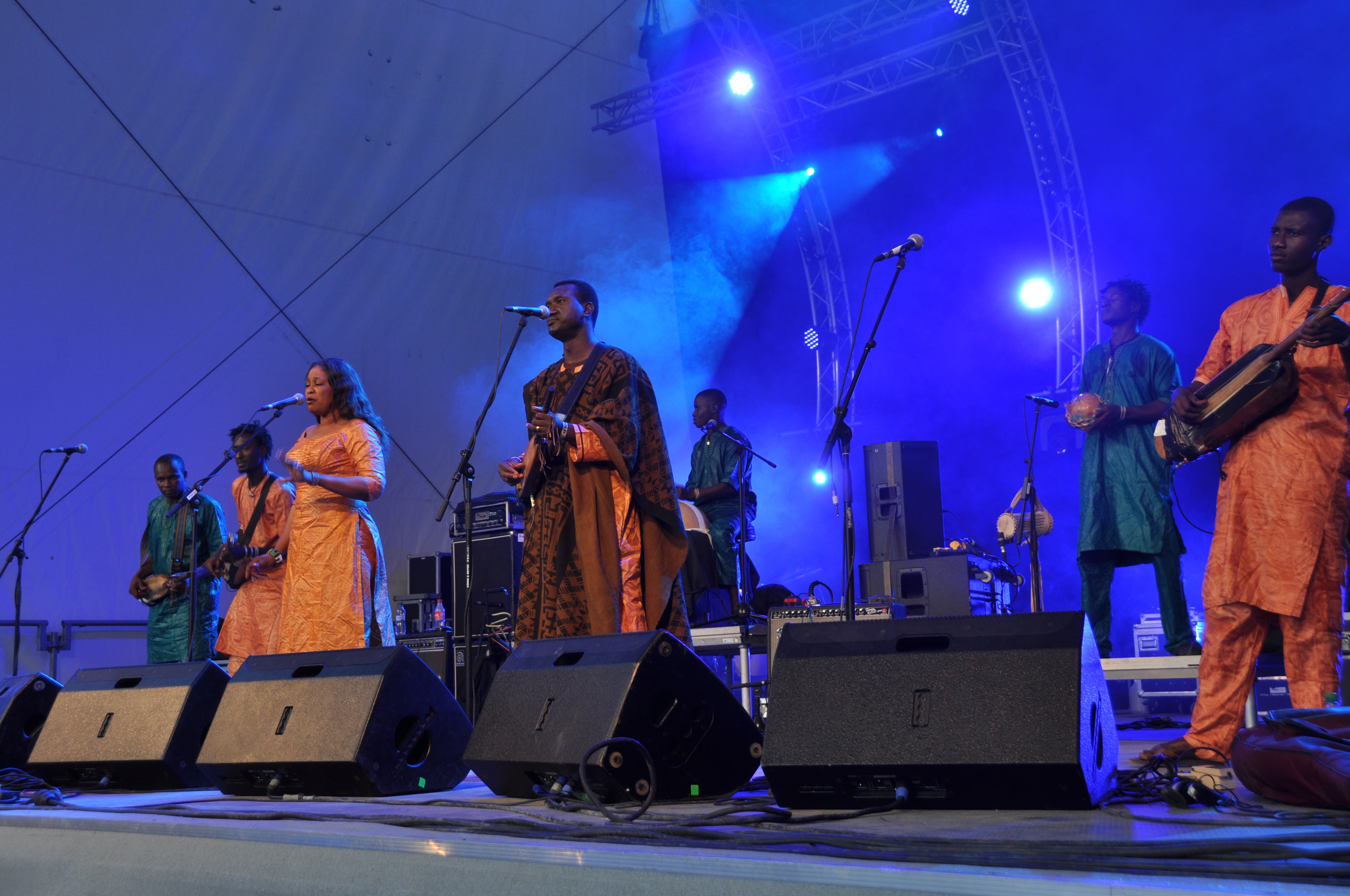 Bassekou Koyaté & Ngoni Ba (ML), appearance at the 12th World Music Festival "Horizonte" 2014 at the fortress of Ehrenbreitstein, Koblenz (Germany)